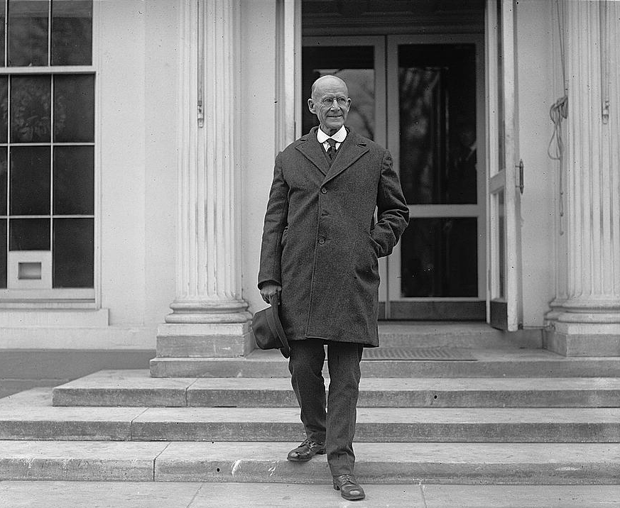 Eugene Debs leaving White House, 24 December 1921, the day after his release from prison following a Presidential pardon.